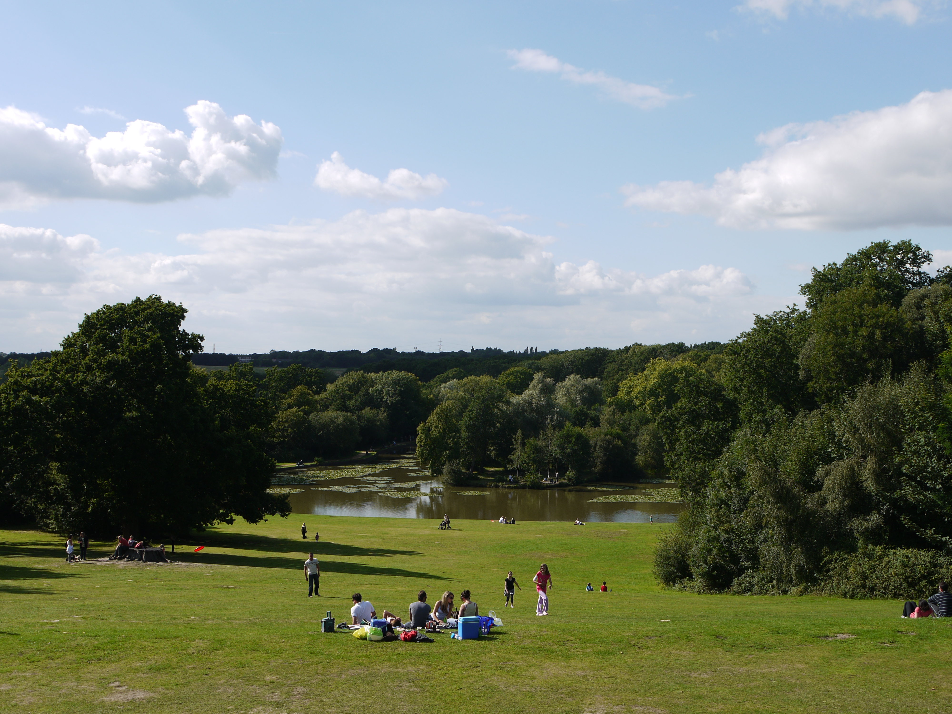 Photo of leigh water the lake in staunton park